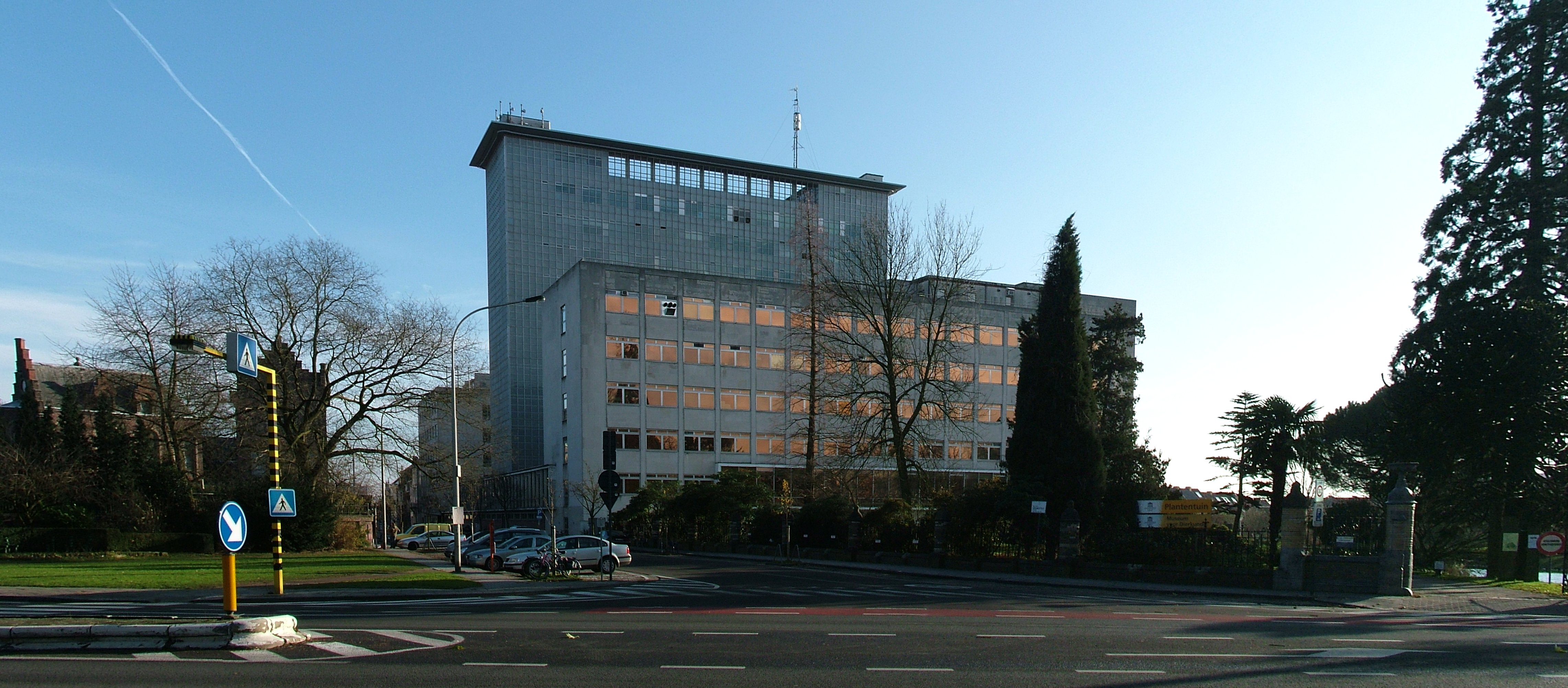 View on the Ledegankstraat with the campus Ledeganck of Ghent university